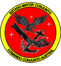 Comando Conjunto Austral